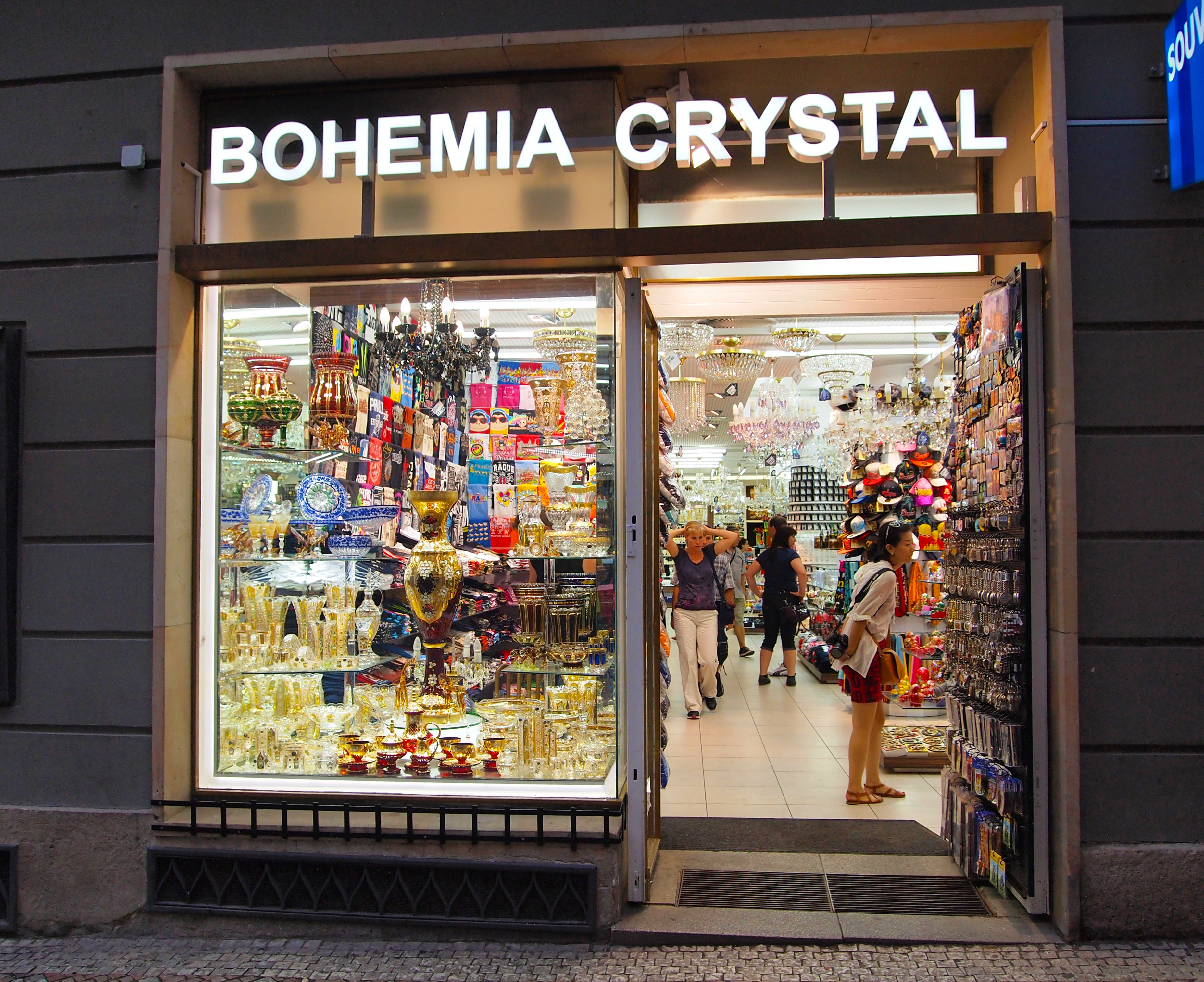 Bohemia Crystal in Prague. This photograph was taken with an Olympus E-PL1